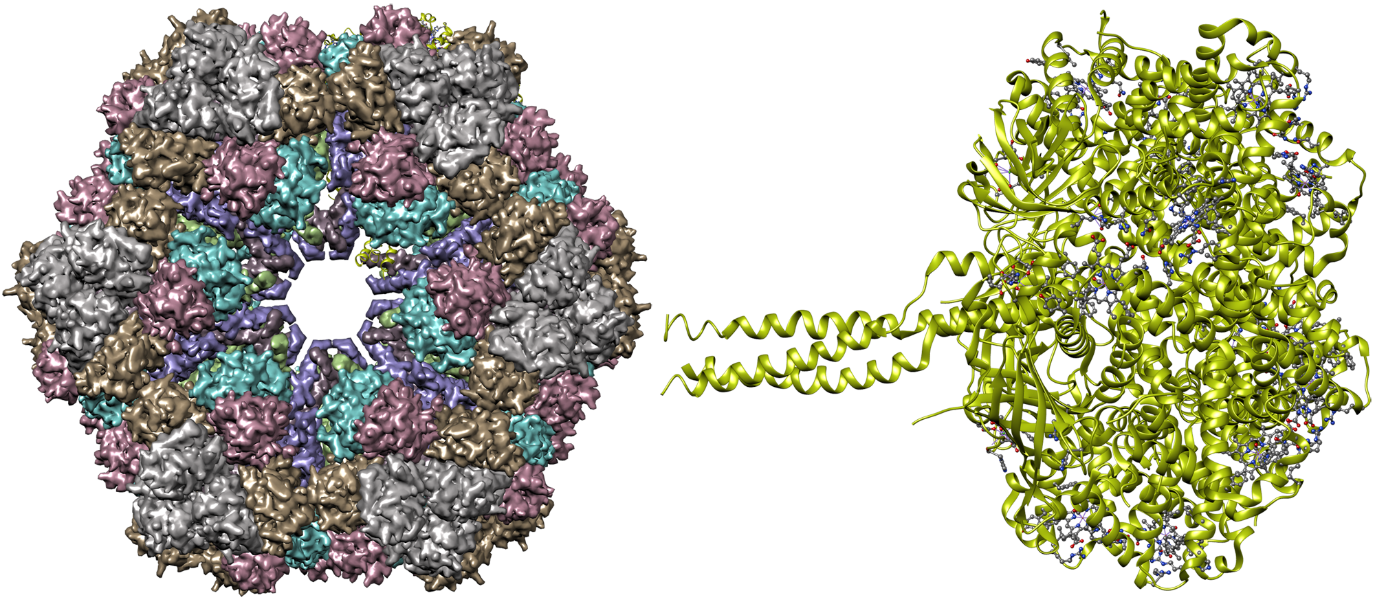 Lumbricus erythrocruorin at 3.5 A resolution: architecture of a megadalton respiratory complex. Visualized with UCSF Chimera. PDB: 2GTL